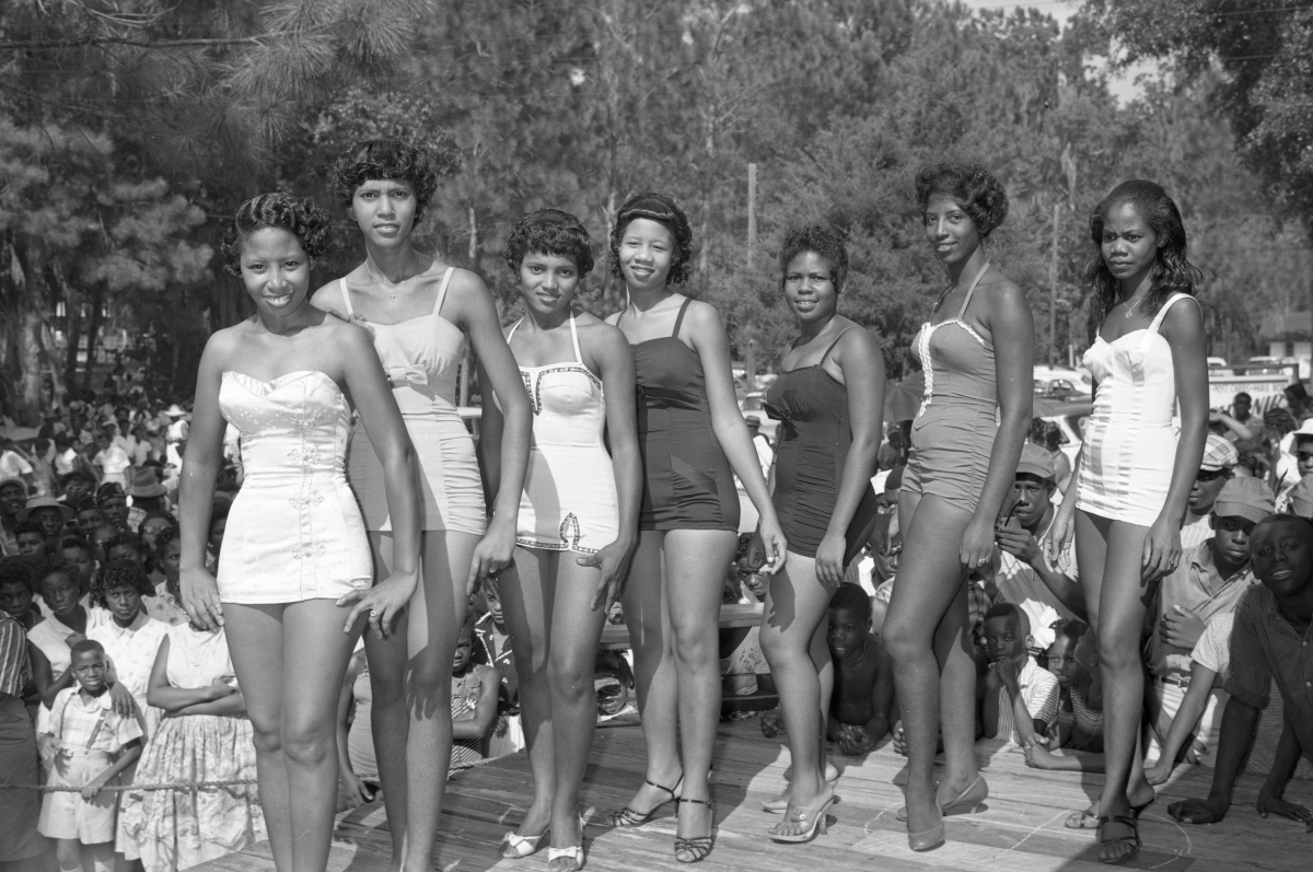 Finalists on stage in the 9th Annual Miss Paradise Park pageant sponsored by the American Legion.